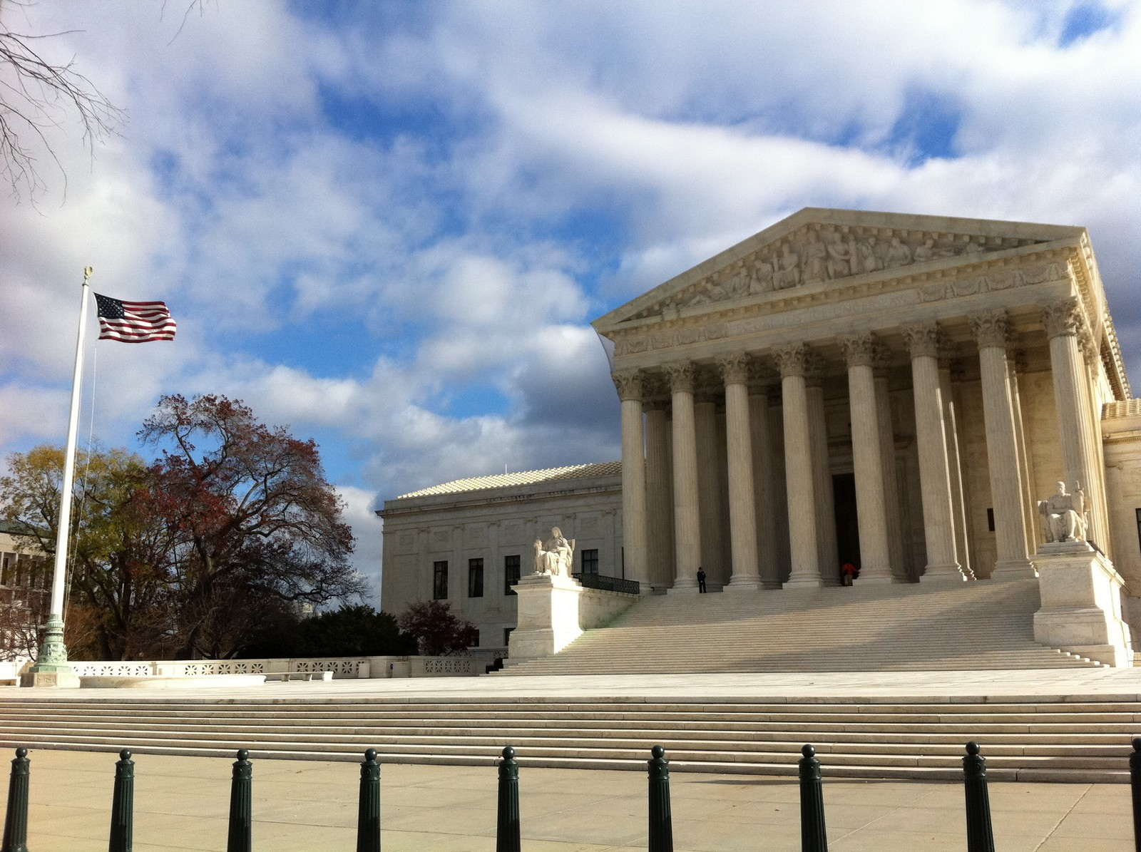 The US Supreme Court in Washington DC.